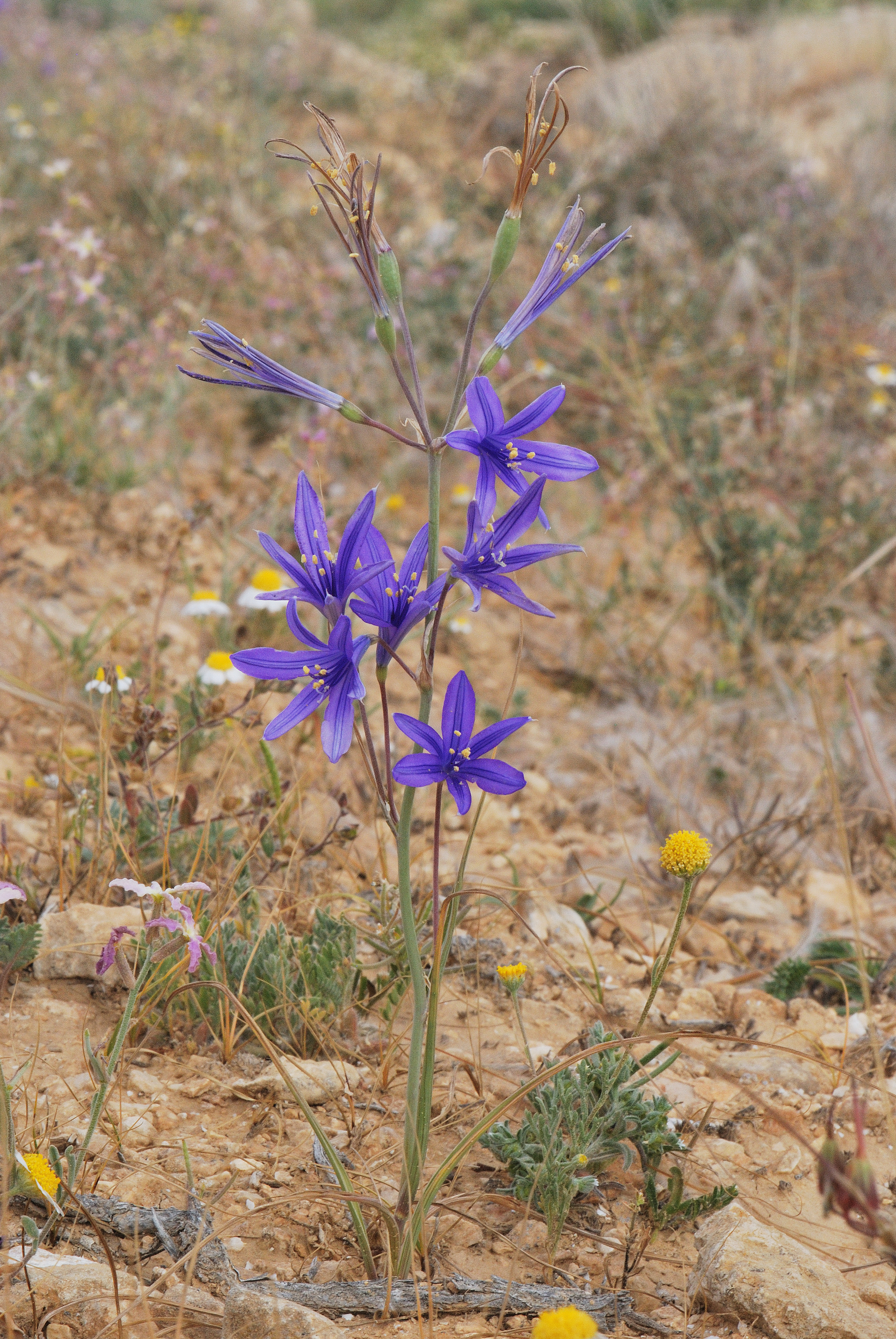 Ixiolirion tataricum (Pall.) Herbert, April 16 2010, Negev Mountains, Israel.